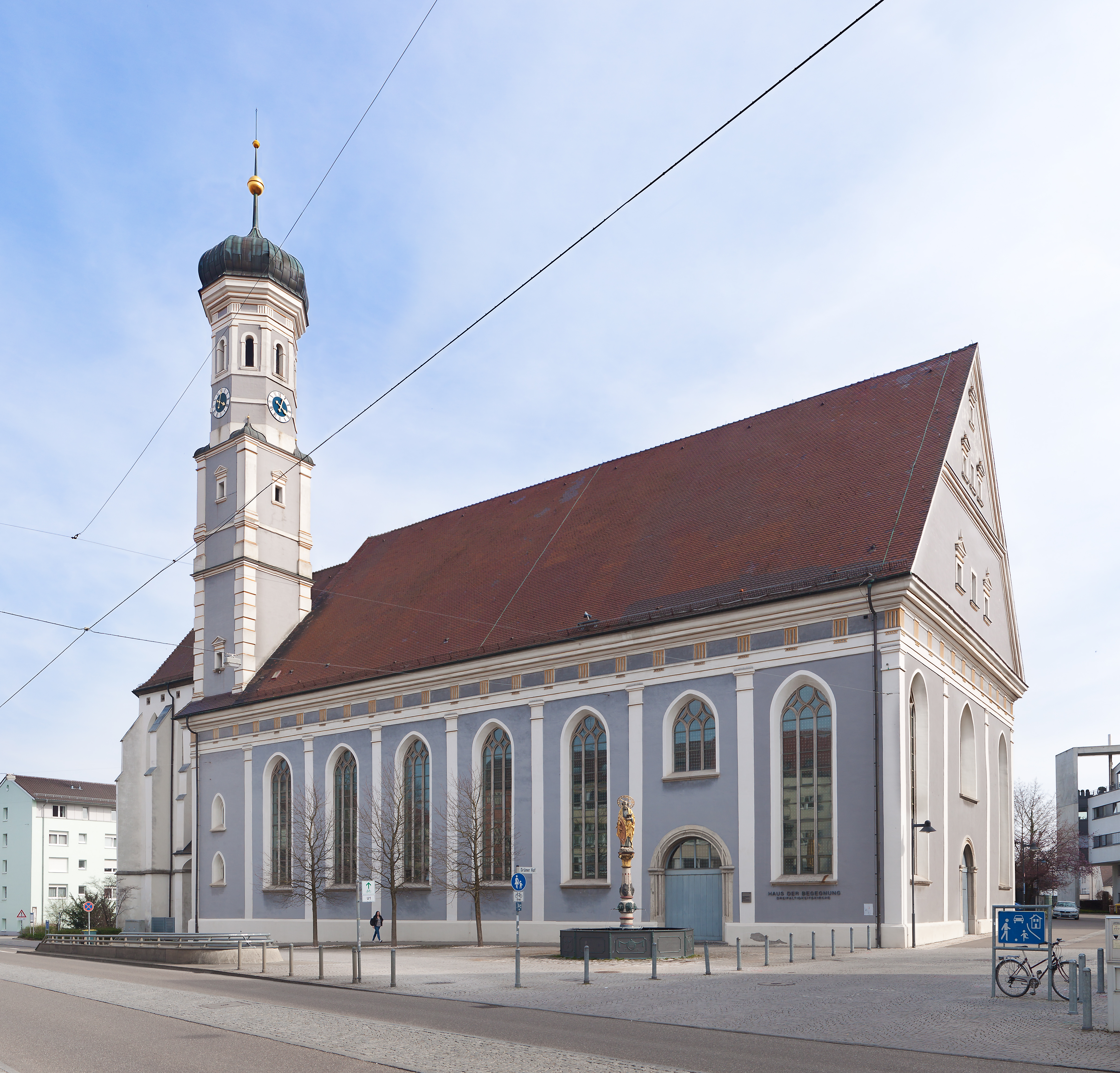 Trinity Church (house of meeting) in Ulm.